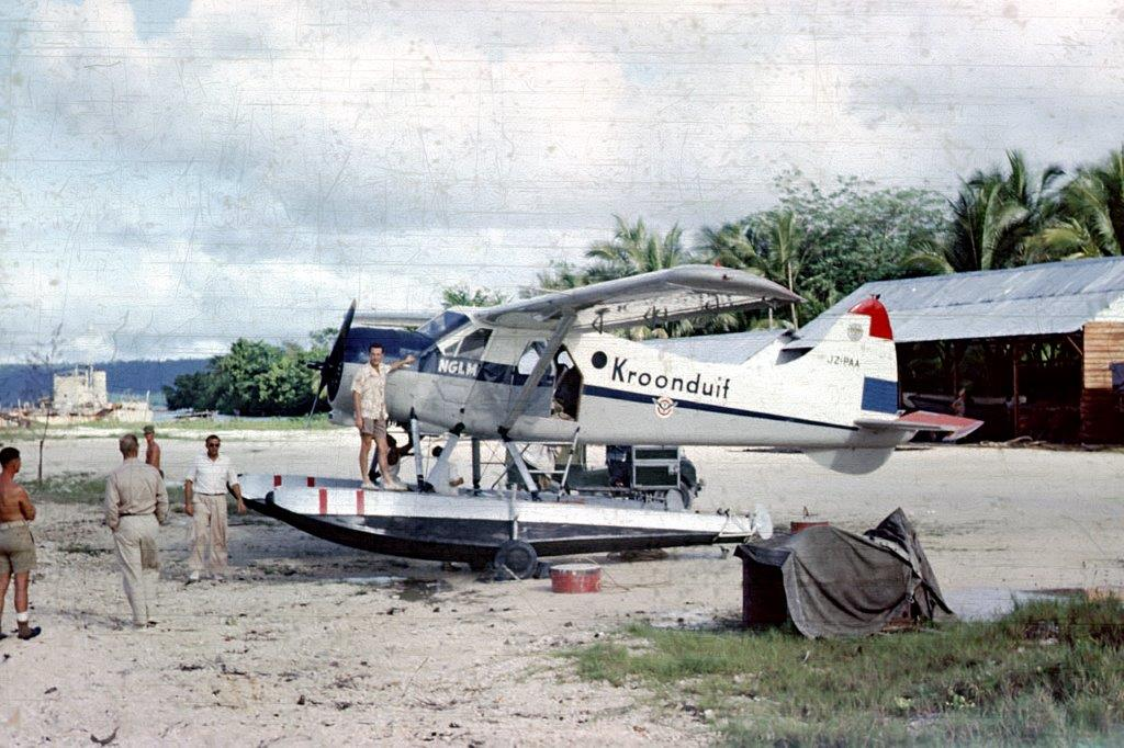 de Havilland Canada DHC-2 Beaver